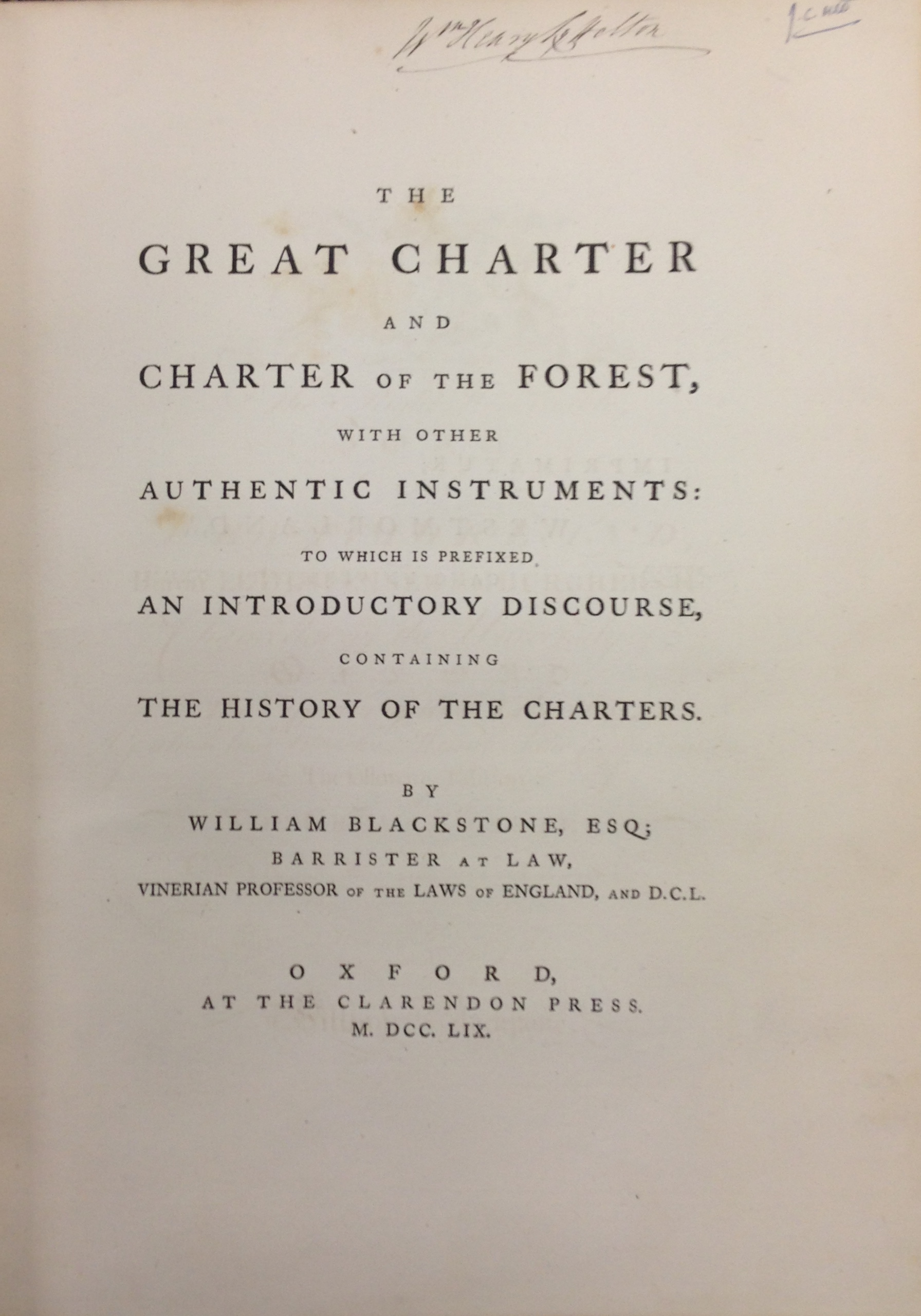 Title page of William Blackstone (1759) The Great Charter and Charter of the Forest, with other Authentic Instruments: To which is Prefixed an Introductory Discourse, Containing the History of the Charters. By William Blackstone, Esq; Barrister at Law, Vinerian Professor of the Laws of England, and D.C.L., Oxford: Clarendon Press OCLC: 4547269. The signature of William Henry Lyttelton, 3rd Baron Lyttelton (3 April 1782 – 30 April 1837), an English Whig politician, appears at the top of the page.